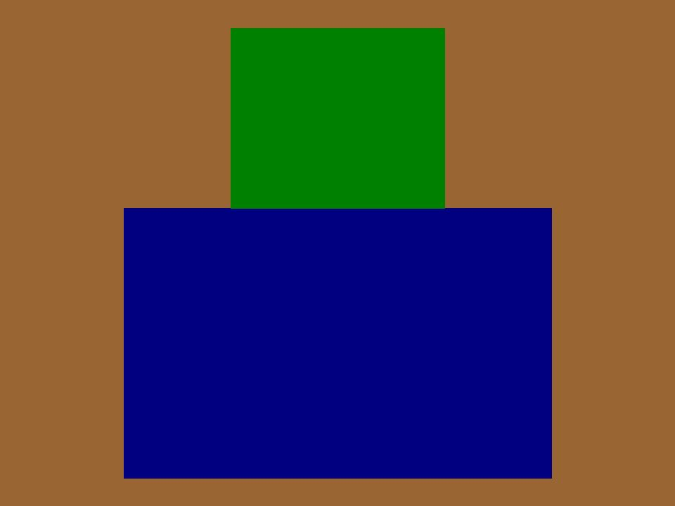 The distinguishing patch of the 21st Battalion, CEF. Summary The distinguishing patch of the 21st Battalion, CEF.